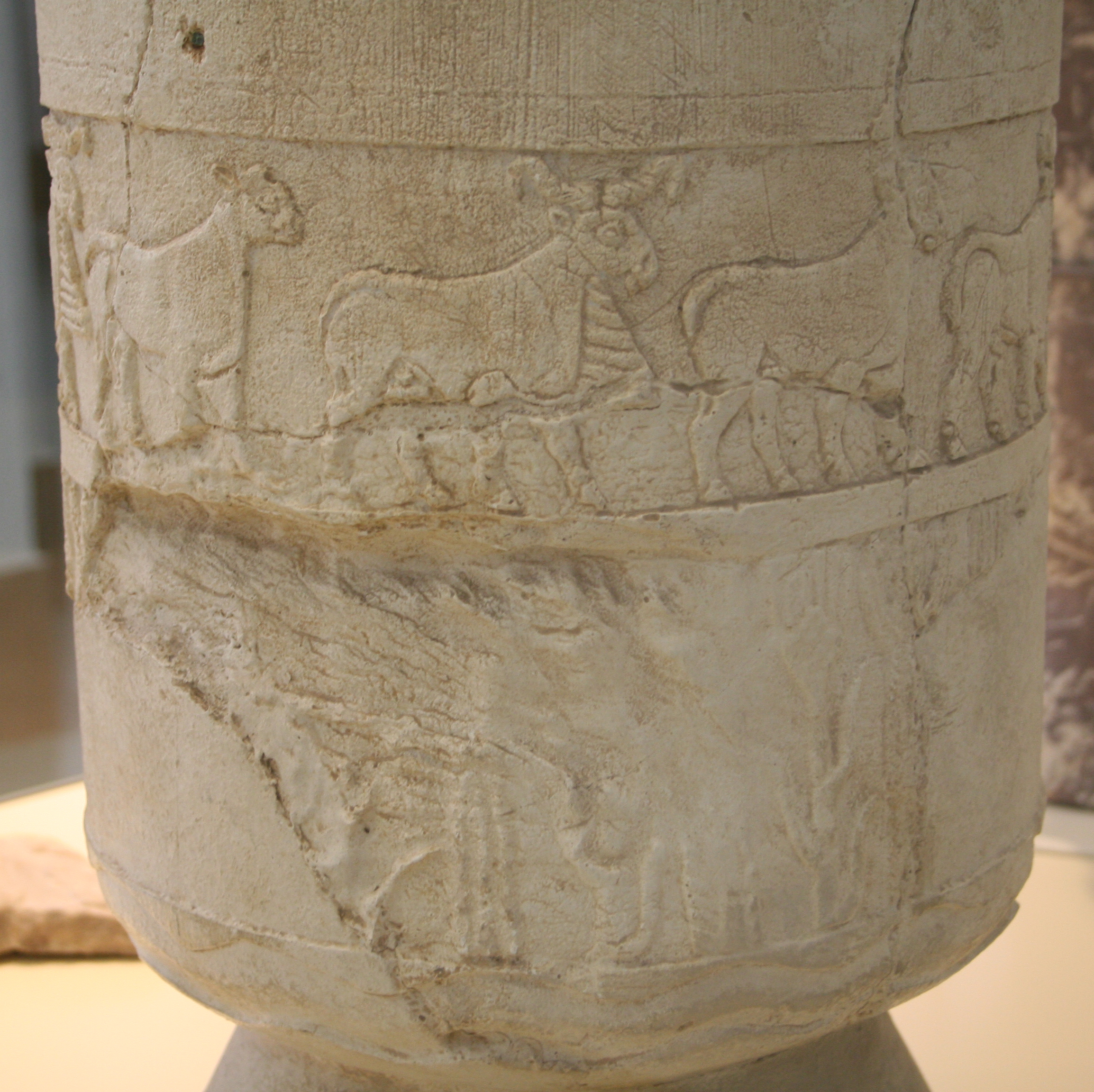 Vorderasiatisches Museum (Near East Museum), Berlin